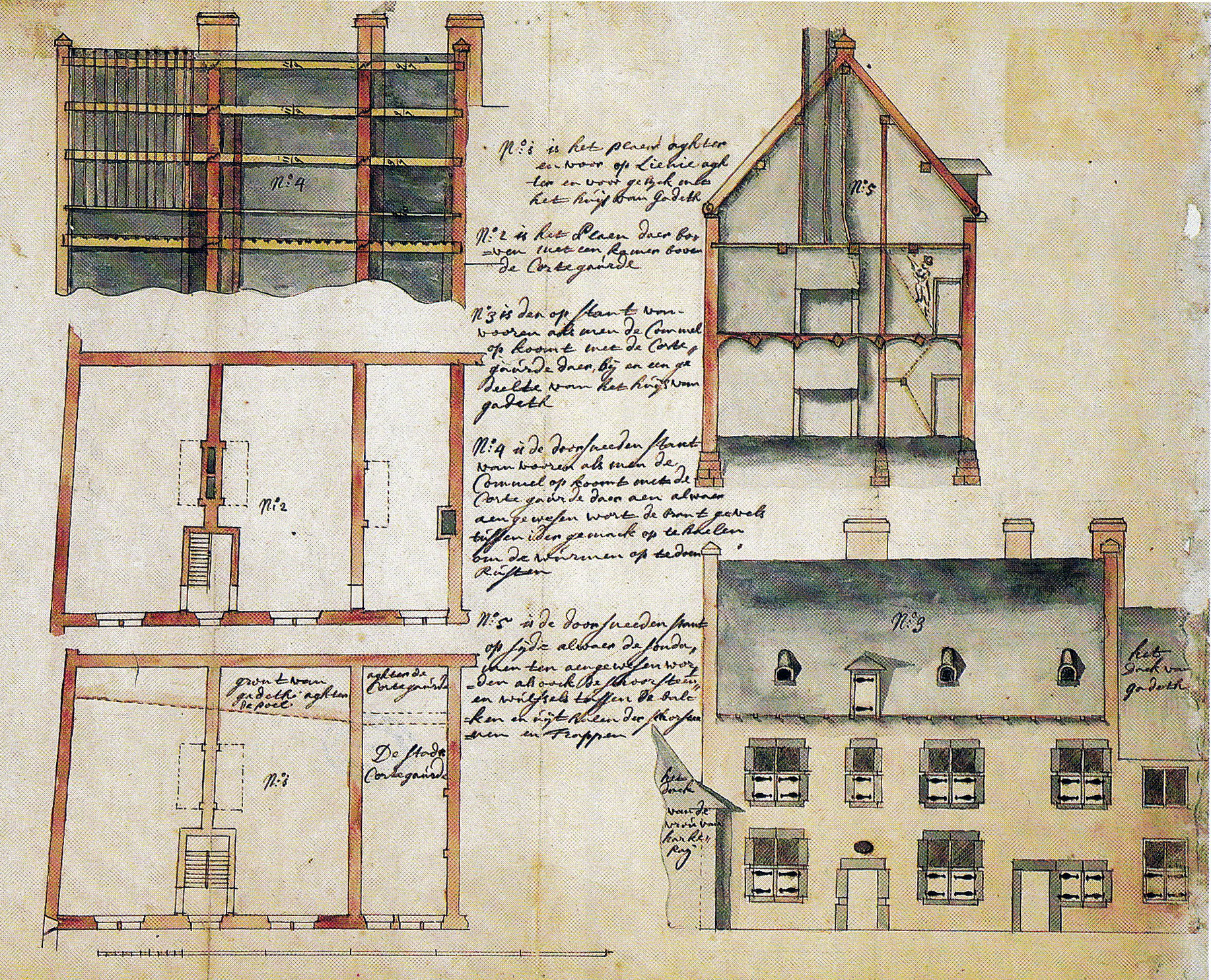 18th-century architectural drawing of a house that no longer exists in Kommel, Maastricht, Netherlands.